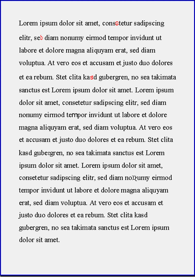 literal mistake (perhaps typographical error?)